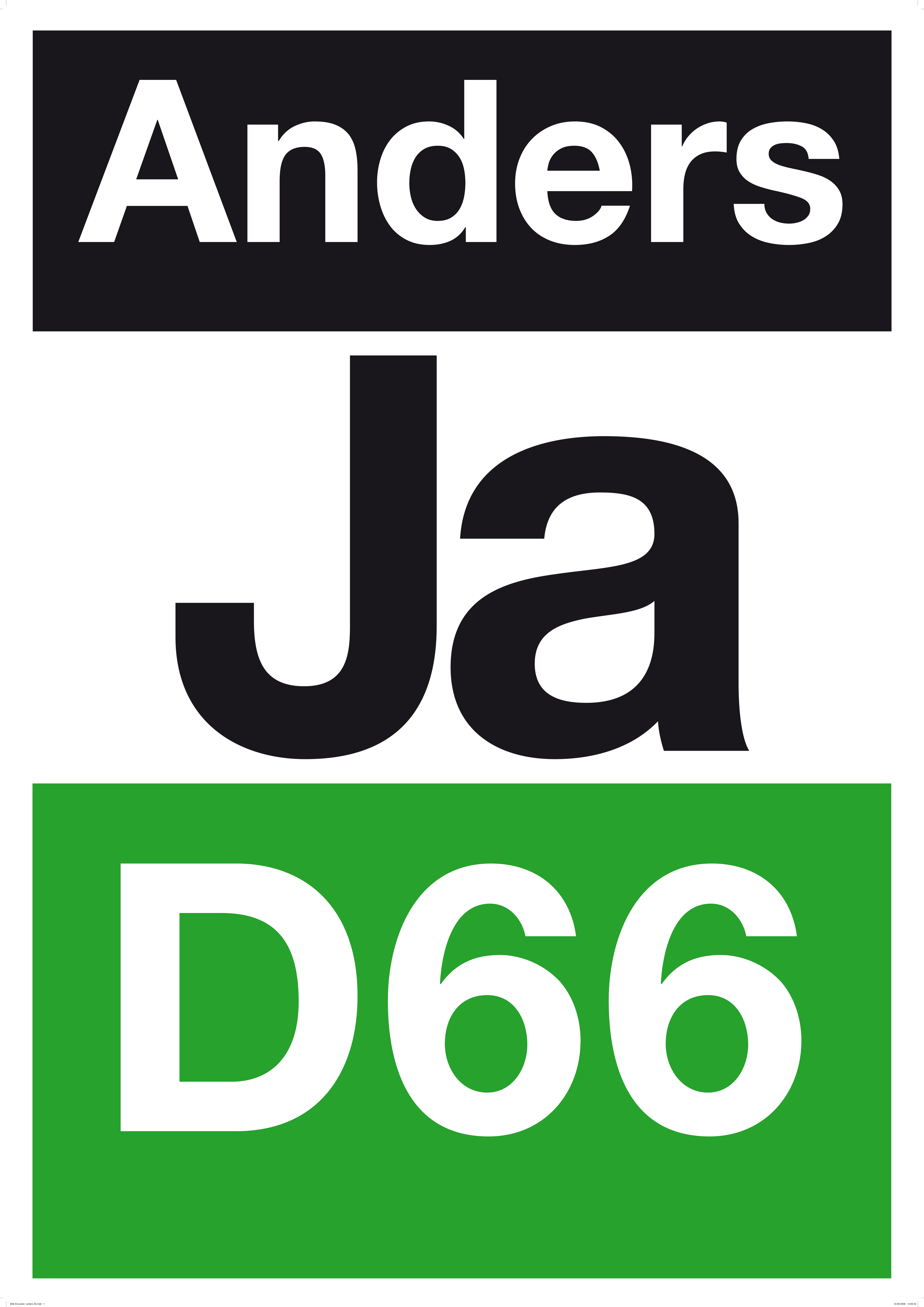 Election poster used in the 2010 election campaign